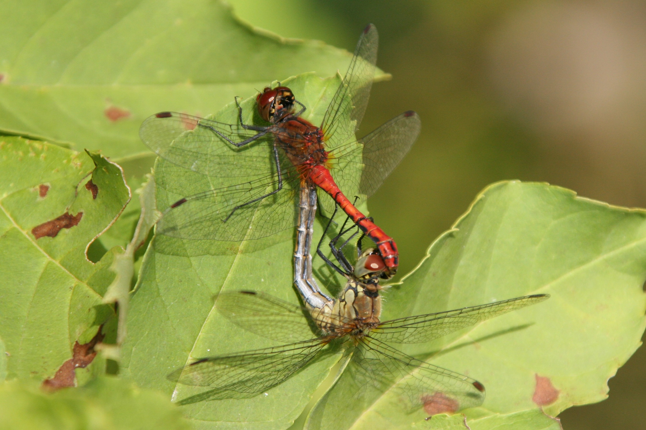 A couple of Ruddy Darter dragonflies (Sympetrum sanguineum), photographed in Weinsberg